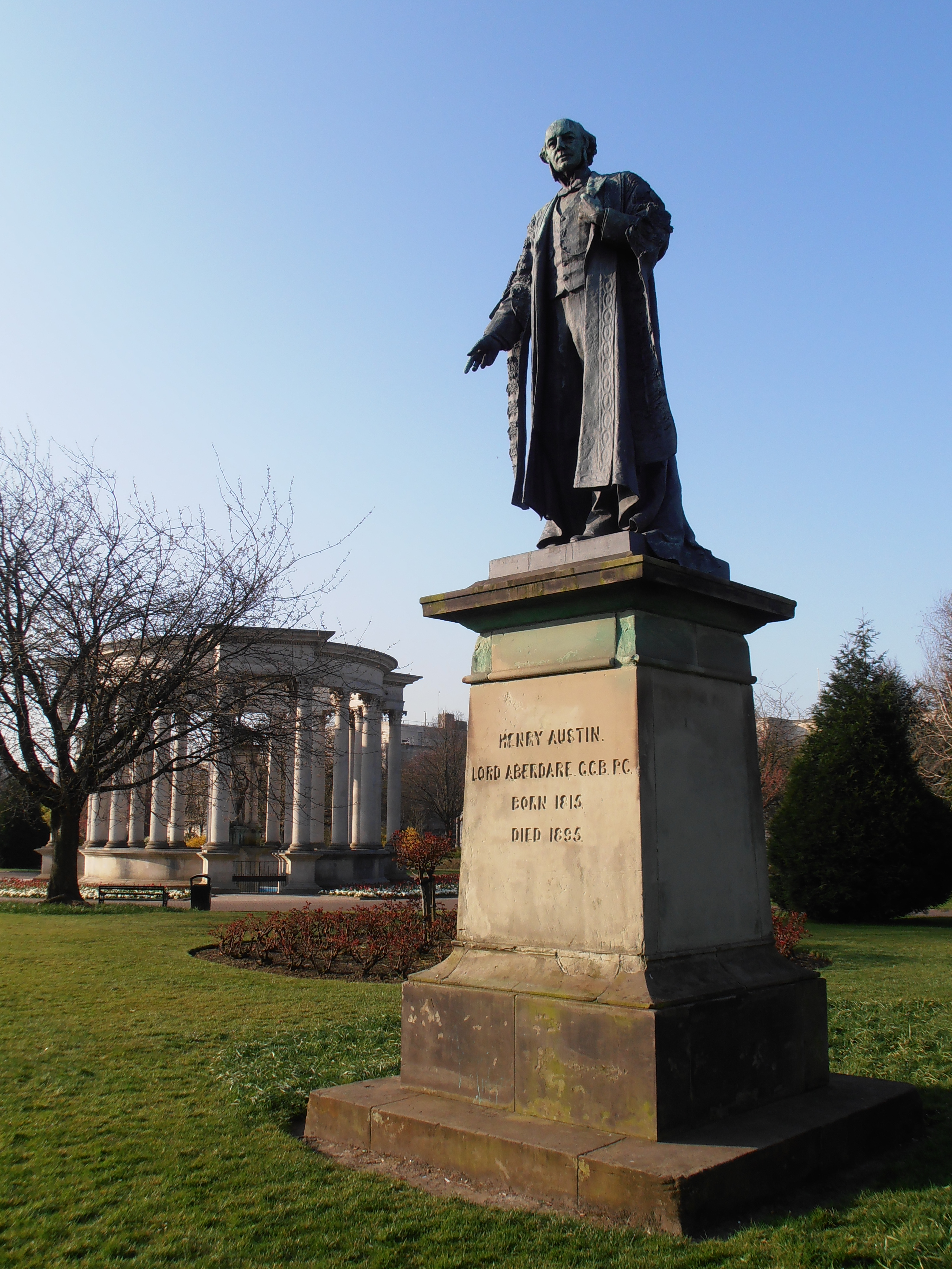 Statue of Lord Aberdare and the Welsh National War Memorial, Alexandra Gardens, Cathays Park, CardiffCymraeg: Cerflun o Arglwydd Aberdâr a Chobeb Rhyfel Cenedlaethol Cymru, Gerddi Alexandra, Parc Cathays, Caerdydd